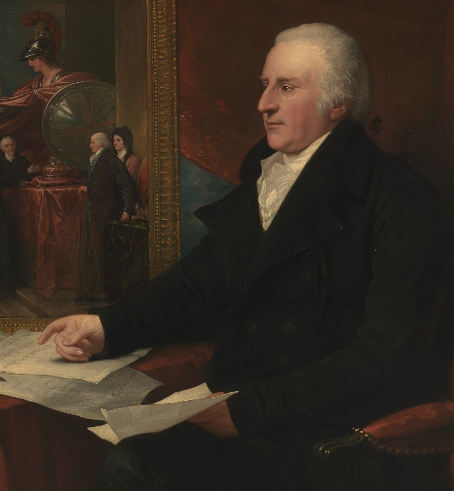 Detail of posthumous portrait of Sir John Eardley Wilmot.